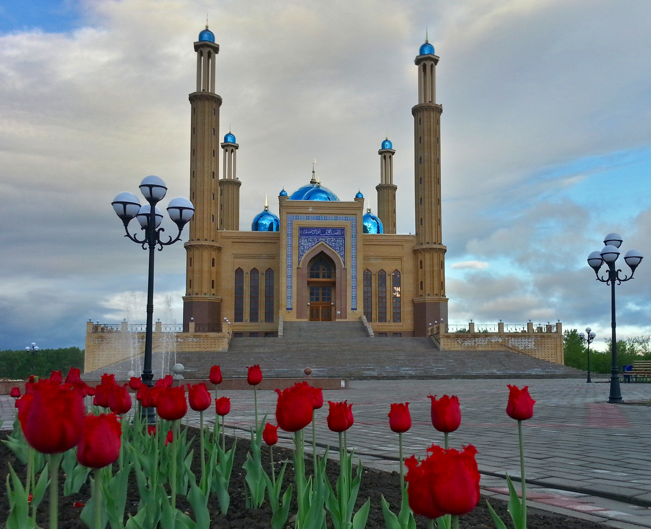 New Mosque of Oskemen, Kazakhstan. Inaugurated in 2012